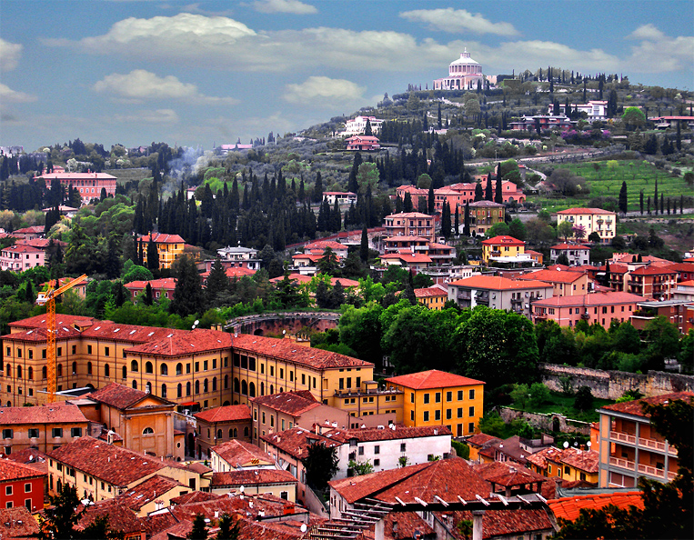 Partial view of Verona, Italy